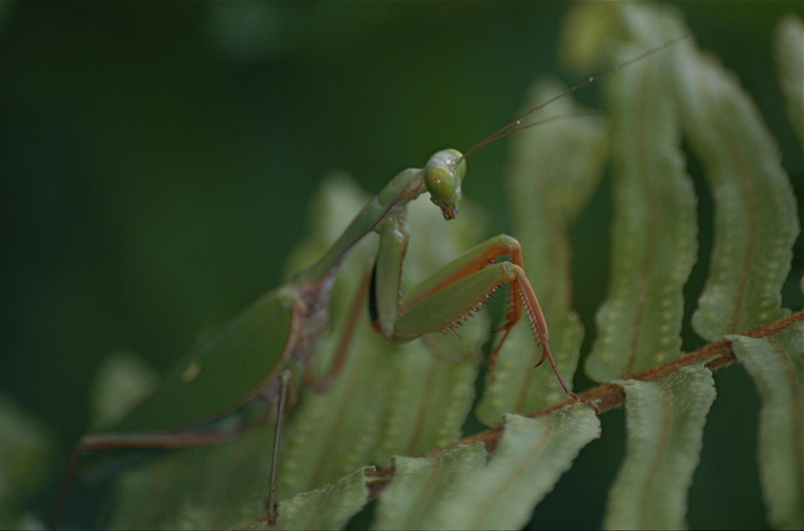 Lync Haven, Cape Tribulation, North Queensland, AUSTRALIA Scanned Slide from Nov 2000